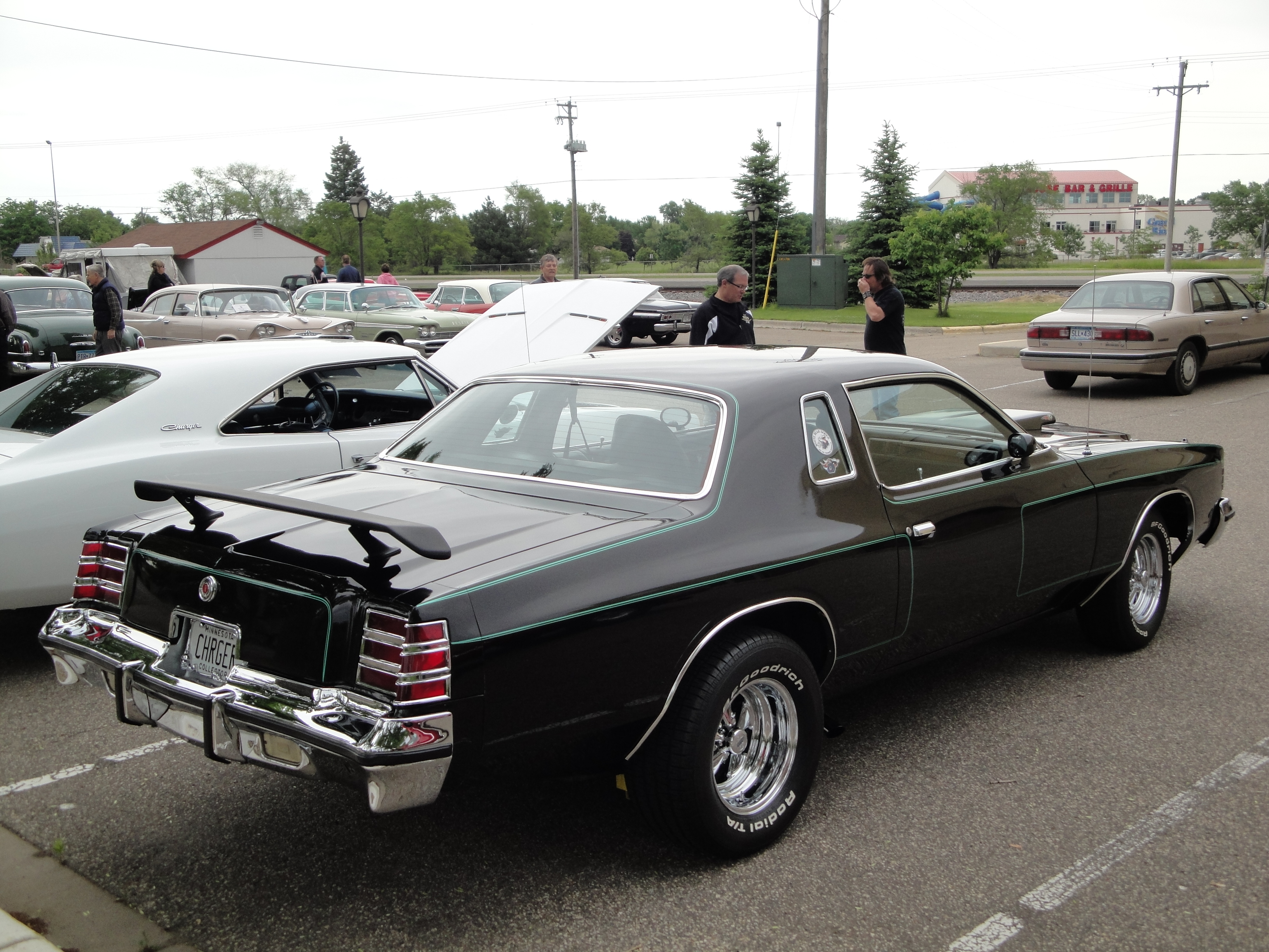 W.P.C. Restorers Club 10,000 Lakes Region Car Show June 12, 2011 Wagner's Drive in